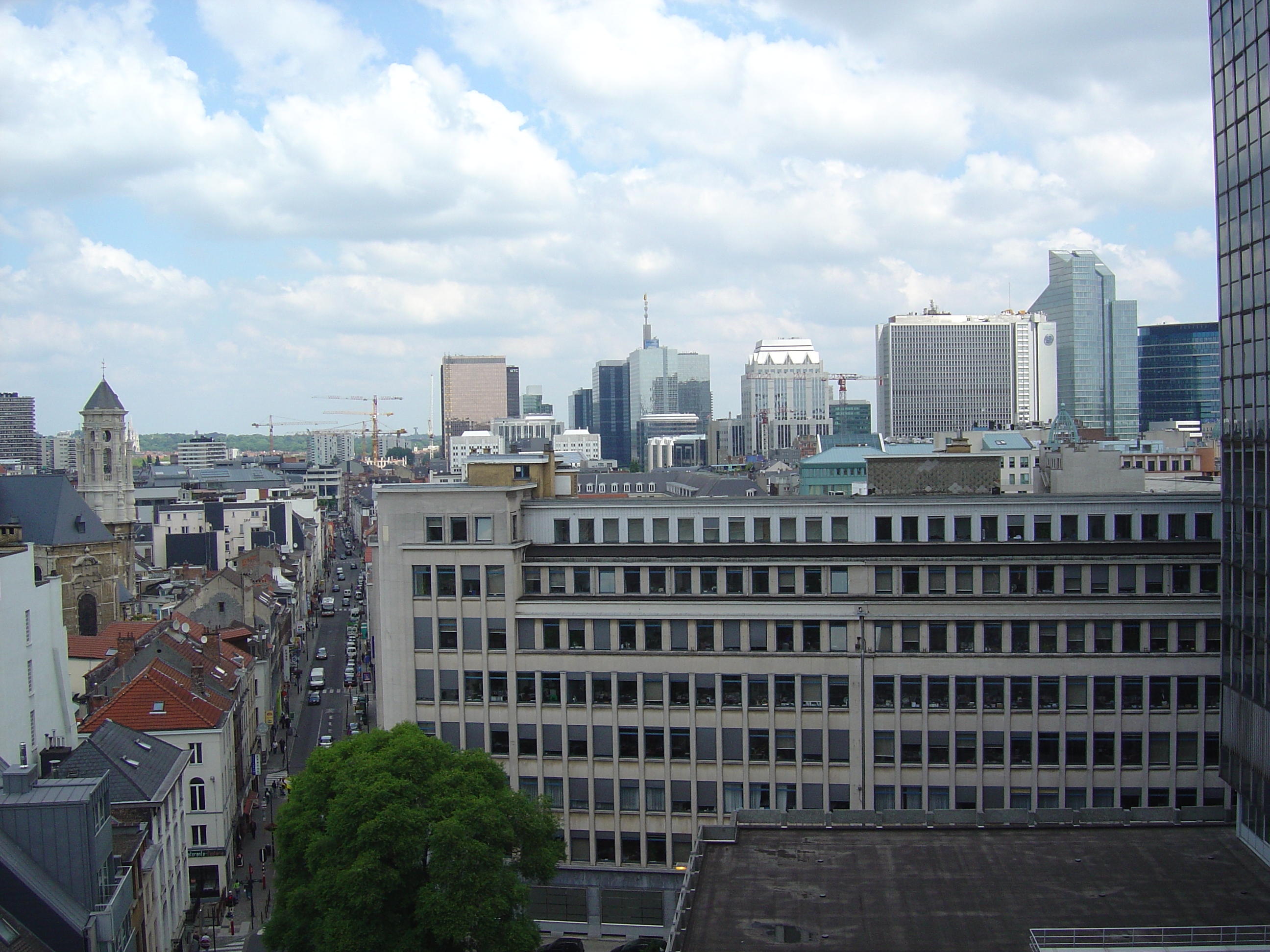 A view of Brussels's CBD.